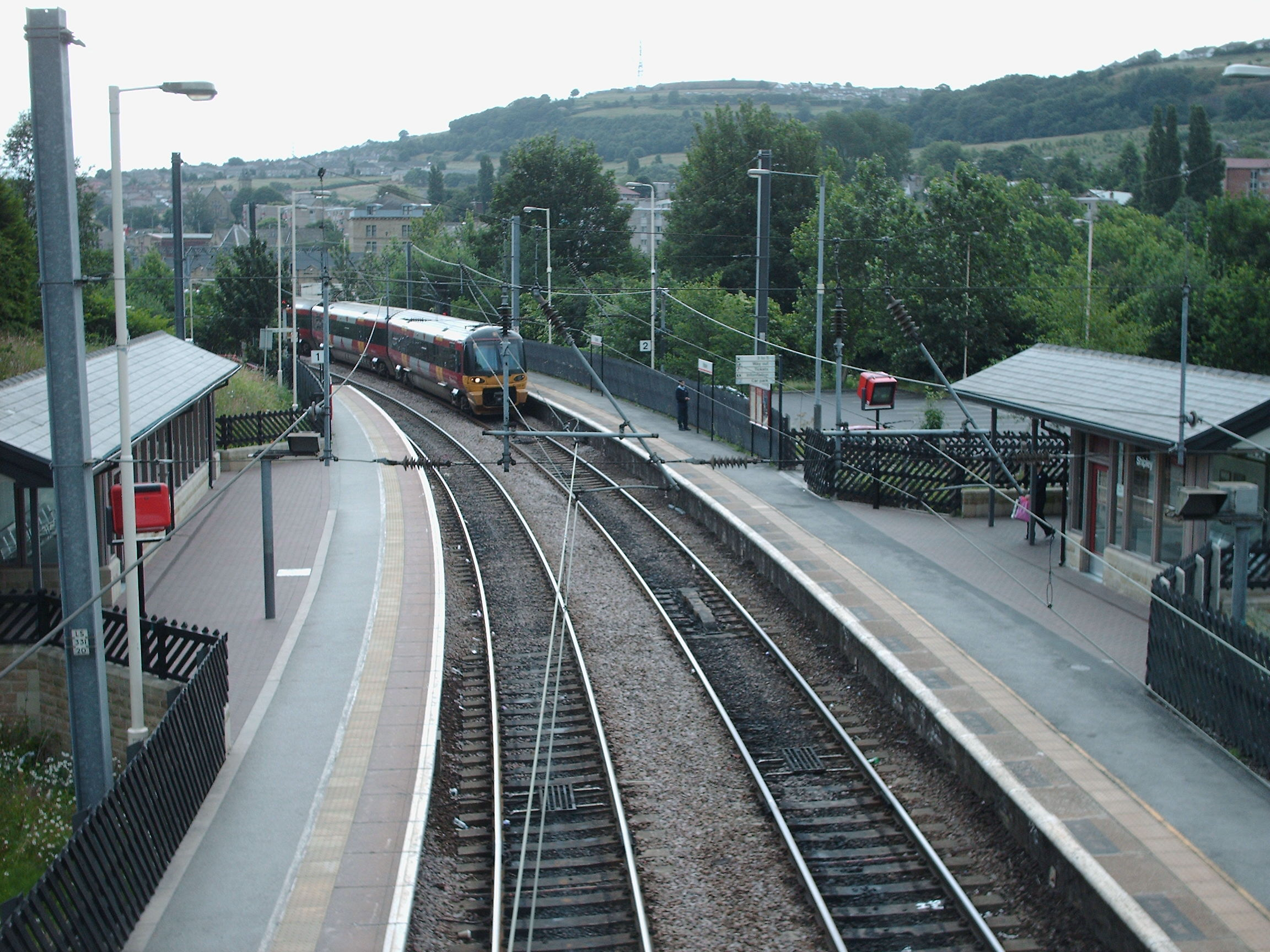 Shipley railway station, West Yorkshire, England. Platforms 1 and 2 from the footbridge.